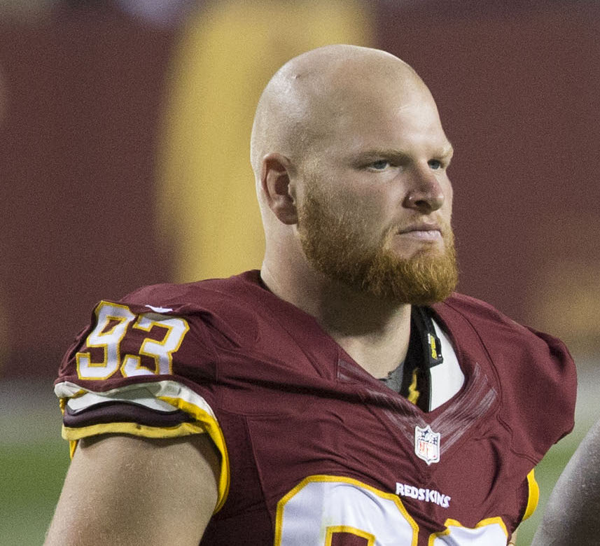 Washington Redskins outside linebacker, Trent Murphy, playing against the Jacksonville Jaguars in the fourth 2015 preseason game on September 3, 2015.